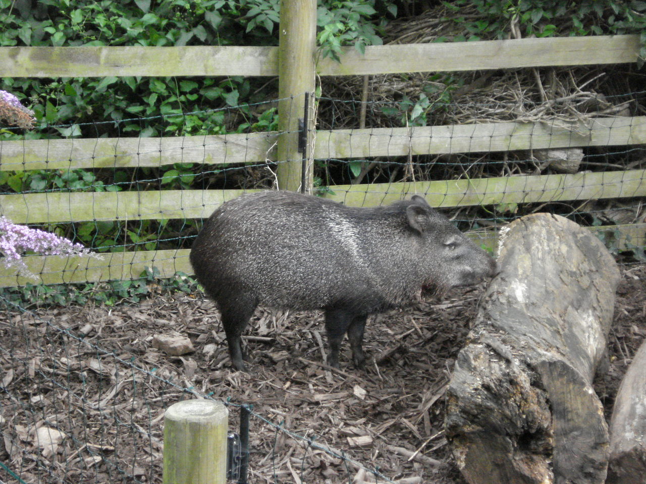 Collared Peccary at Paignton Zoo, England.